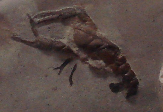 fossil of Eryma mandelslohi